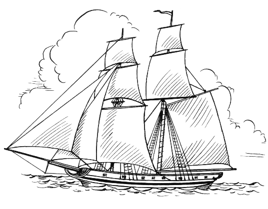 line art drawing